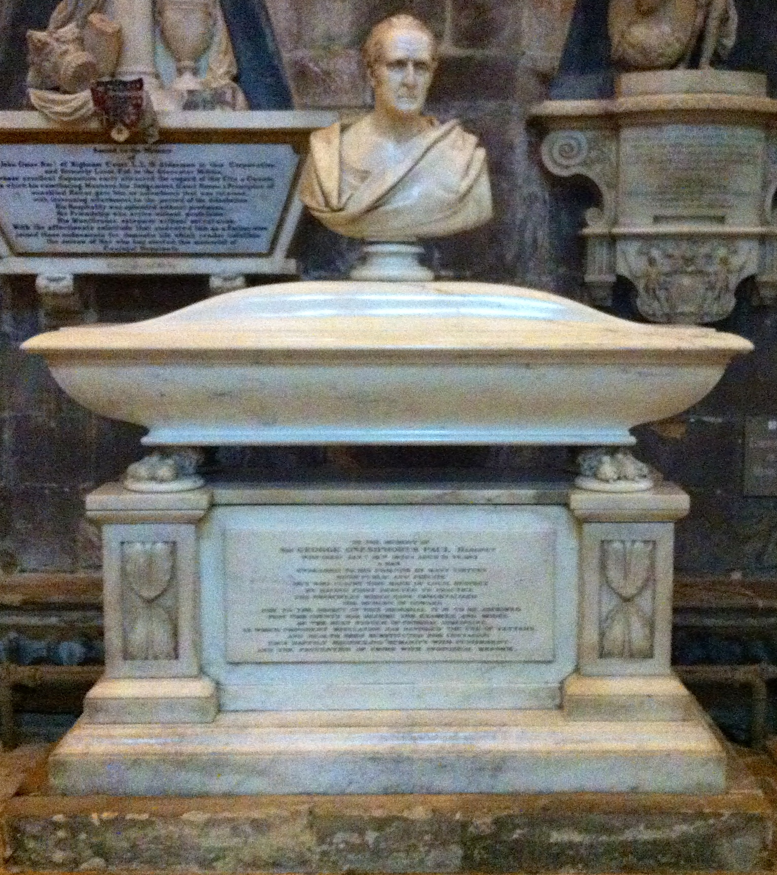 Memorial to Sir George Onesiphorus Paul in Gloucester Cathedral